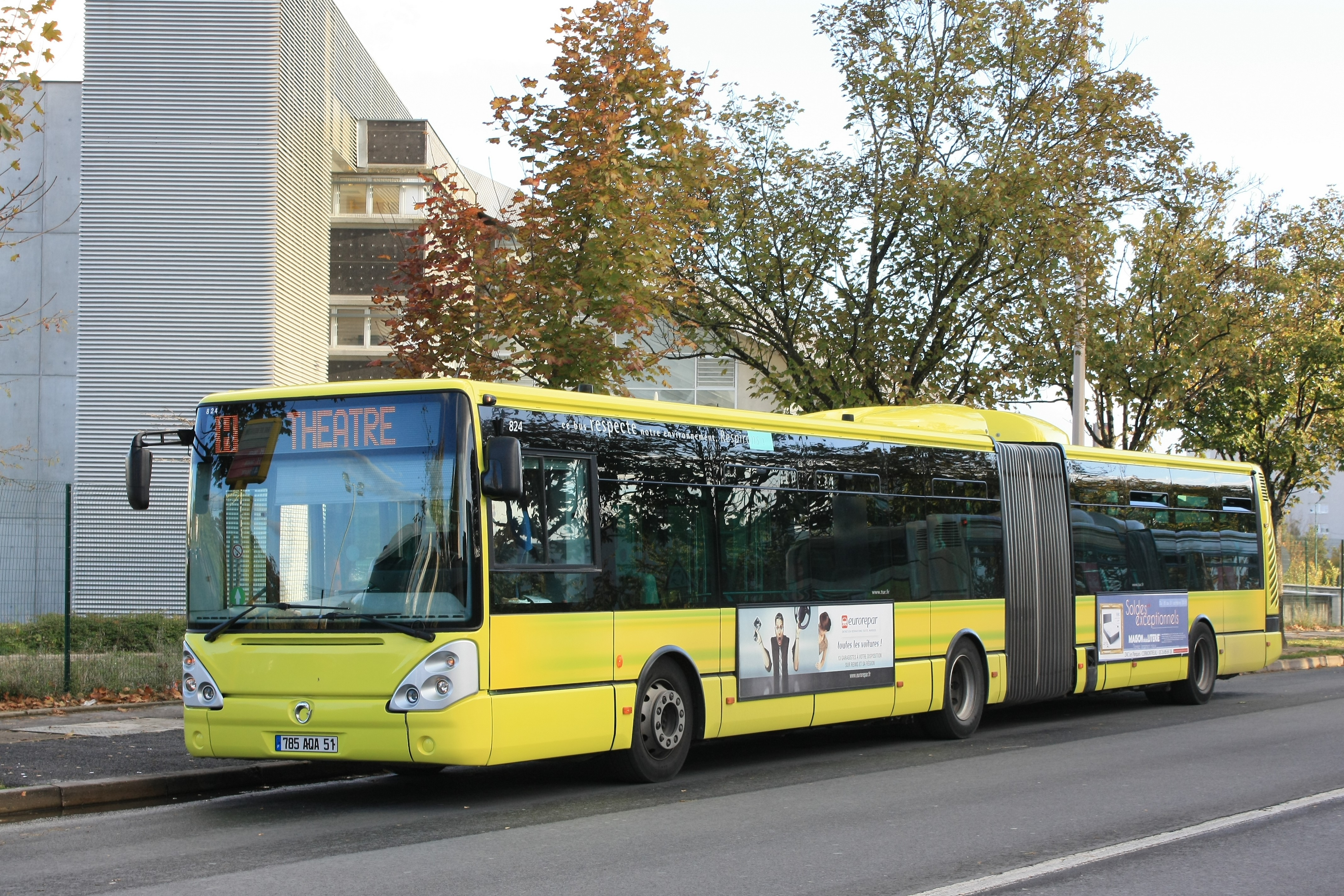 Irisbus Citelis 18 #824 in Rheims, France